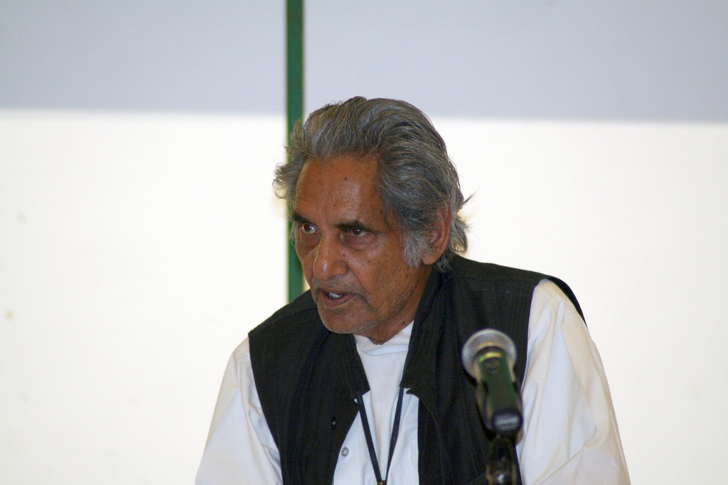 This photo was taken during a function in his honour